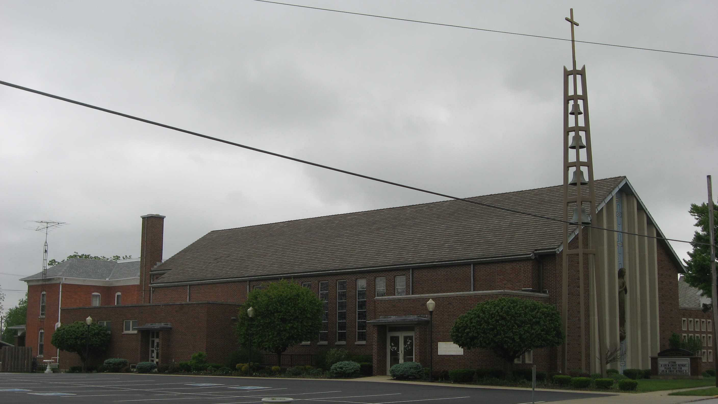 Front and side of Immaculate Conception Catholic Church, located at the intersection of N. Main (State Route 219) and Walnut Streets in Botkins, Ohio, United States.